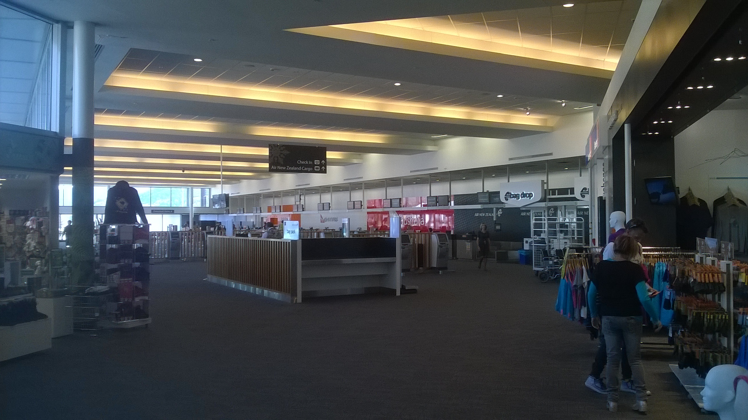 Check in Hall at Queenstown Airport